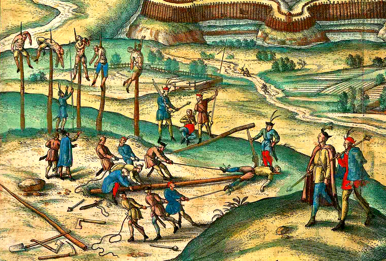 Engraving of the Pápa castle by Georgius Houfnaglius from 1617, in the foreground probably depicting the execution of the mutinous Walloon mercenaries in 1600